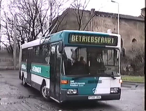 A duobus of Potsdam on a speical service